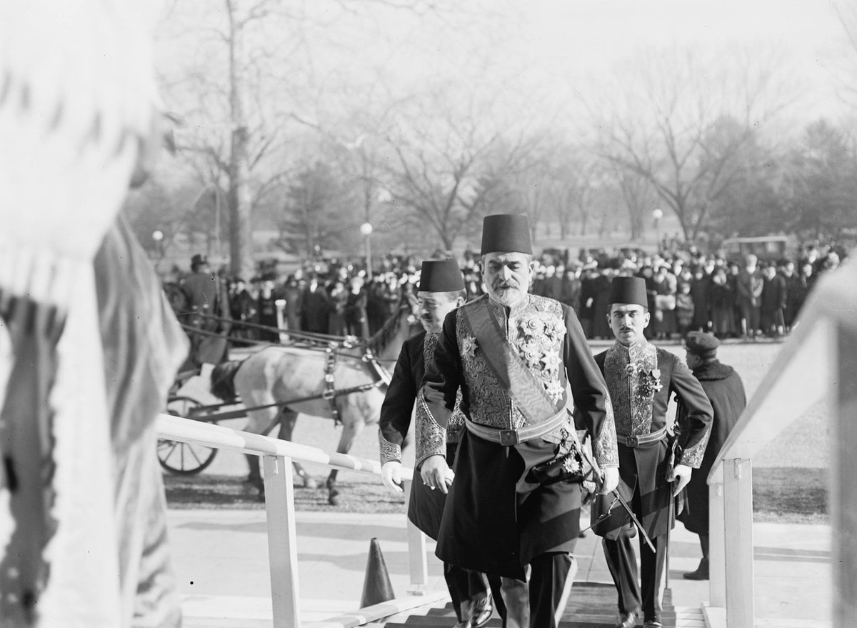 Yusuf Ziya Pasha, Ottoman Ambassador in Washington, USA, 1913